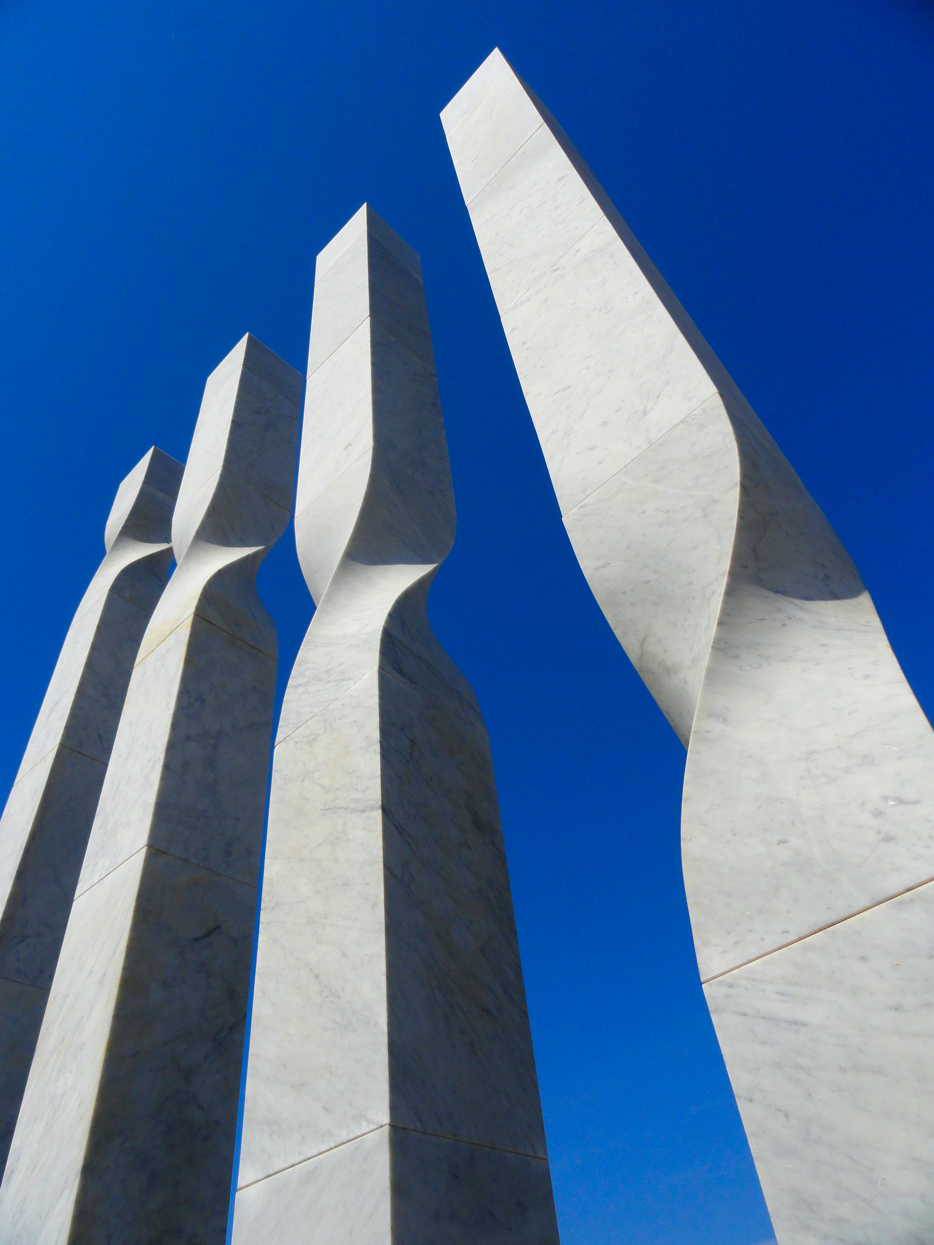 Ricardo Bofill (Ricard Bofill Leví), Les quatre barres de la senyera catalana, circa 2010, (08019/1988-1), Hotel W Barcelona, Plaça de la Rosa del Vents 1, Barcelona. This is a marble representation of the Senyera ("flag" in Catalan), a vexillological symbol based on the coat of arms of the Crown of Aragon, which consists of four red stripes on a golden background. This coat of arms, often called bars of Aragon, or simply "the 4 bars" (les quatre barres), historically represented the king of the Crown of Aragon.